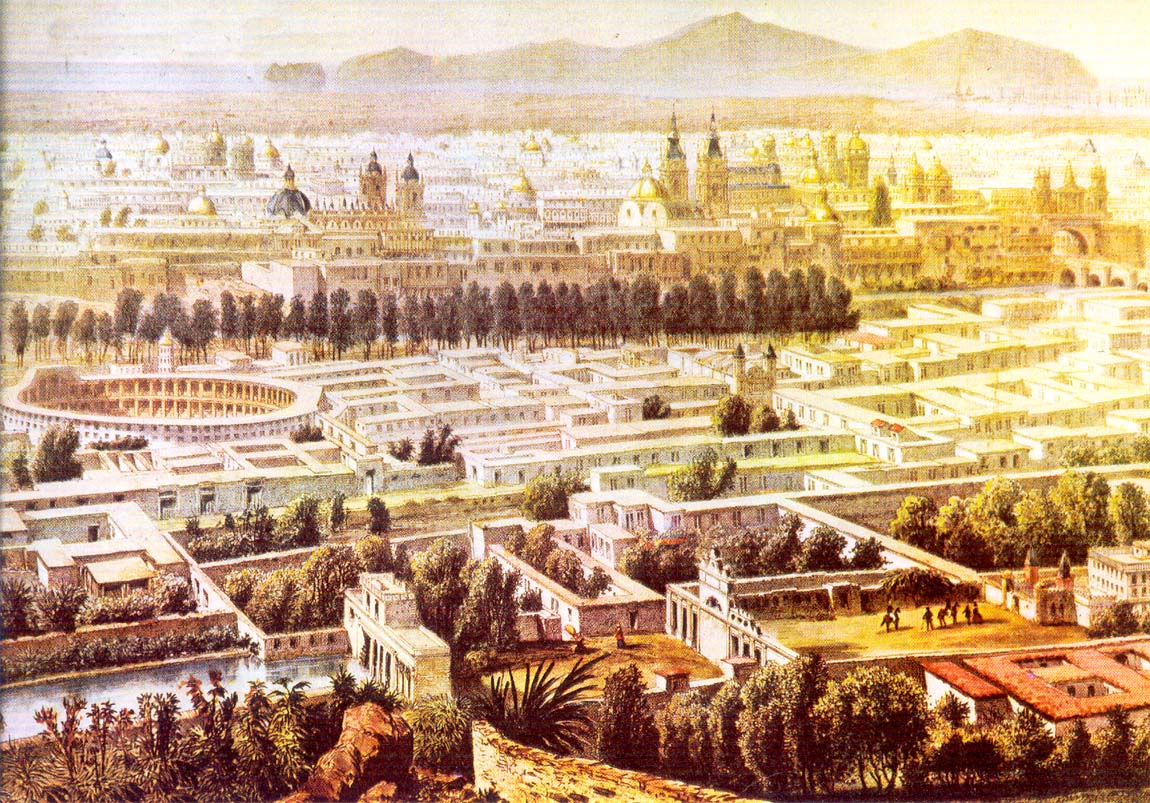 The city of Lima, Peru as seen from the Rimac district